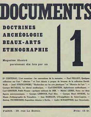 Cover of Surrealist journal Documents No 1, 1929